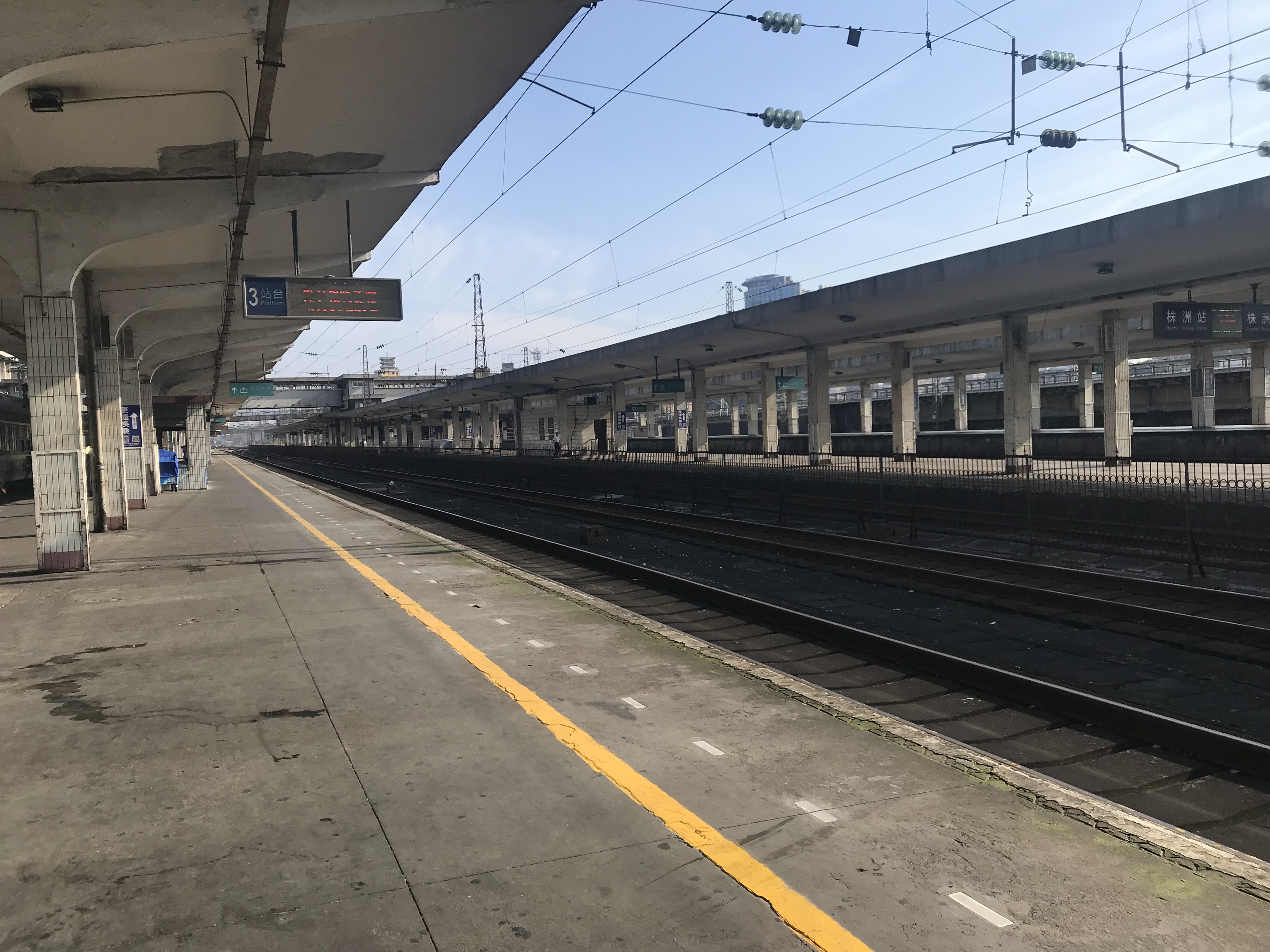 201906 Platforms of Zhuzhou Station